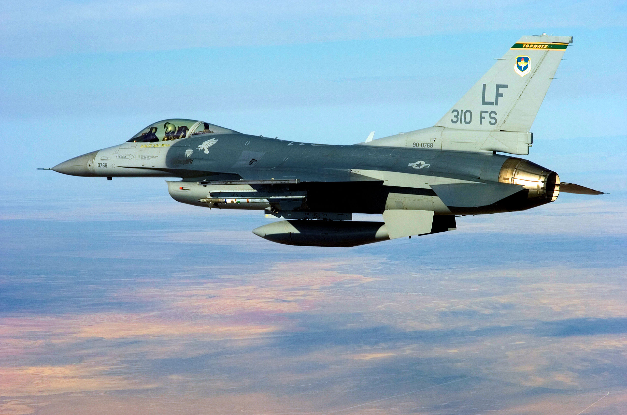 A Luke Air Force Base F-16 Fighting Falcon from the 310th Fighter Squadron flies over the White Sands Missle Range in New Mexico during a QF-4 drone shootout exercise June 8-18. (U.S. Air Force photo by Tech. Sgt. Jason Wilkerson)